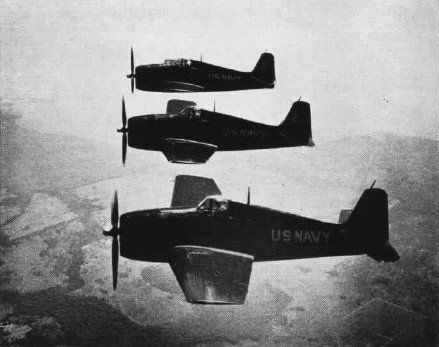 Three Grumman F6F-5 Hellcat fighters as they were depicted in the Naval Aviation News October 1946. The original caption reads: "Team of fighter exhibition pilots flies formation for various air shows." Note that the Hellcats are lacking armament and are already carrying the later typical Blue Angel inscriptions and numbers.